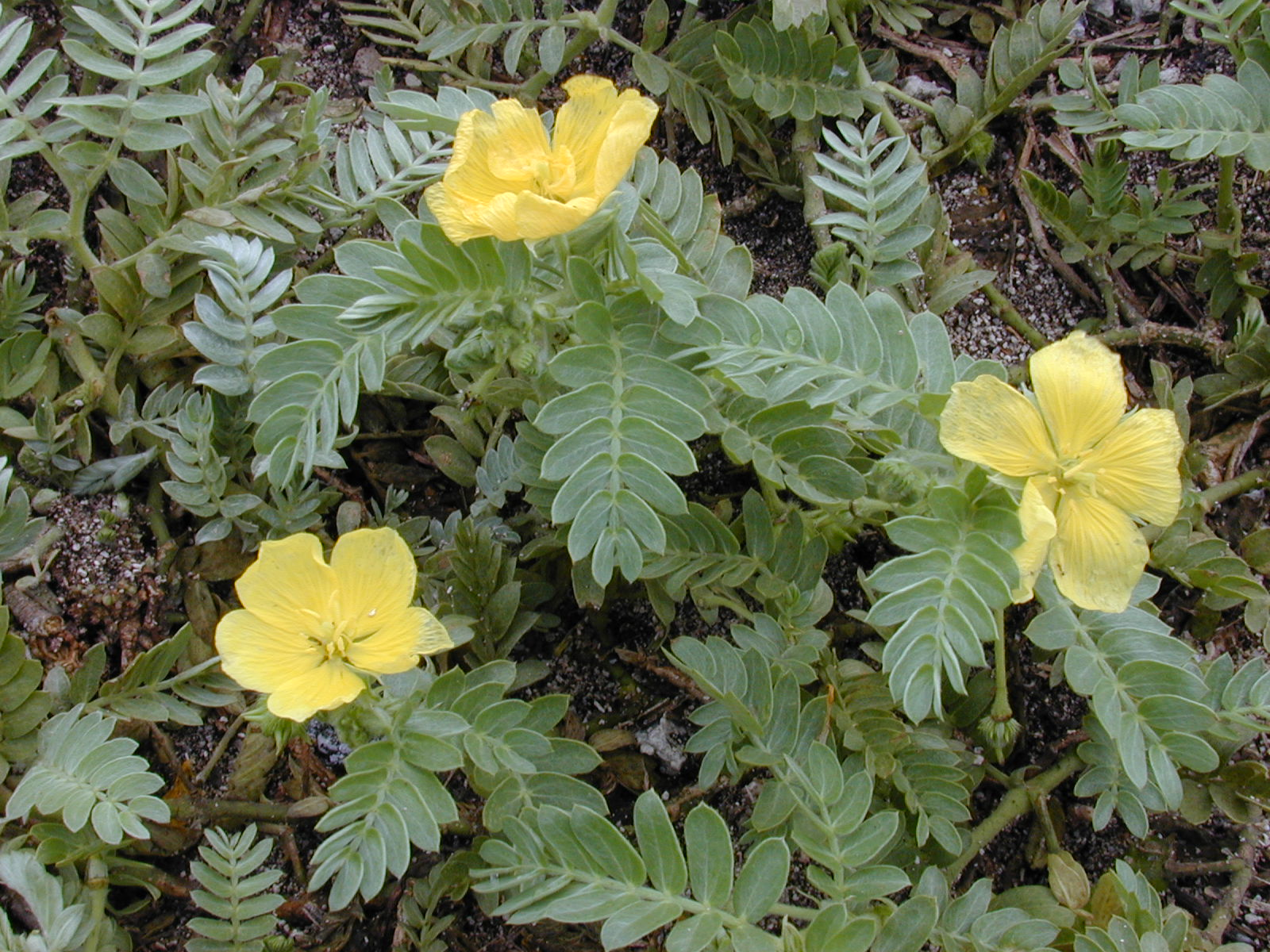 Tribulus cistoides (flowers and leaves). Location: Kure Atoll, Near coast